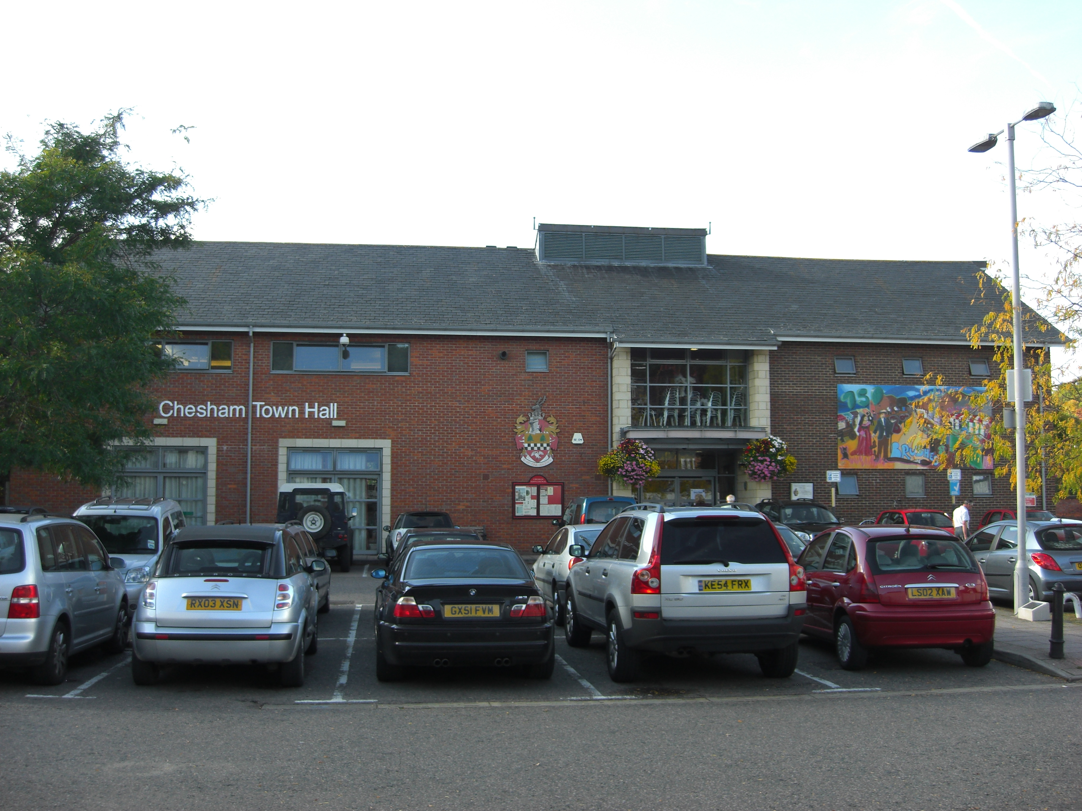 Chesham Town Hall.